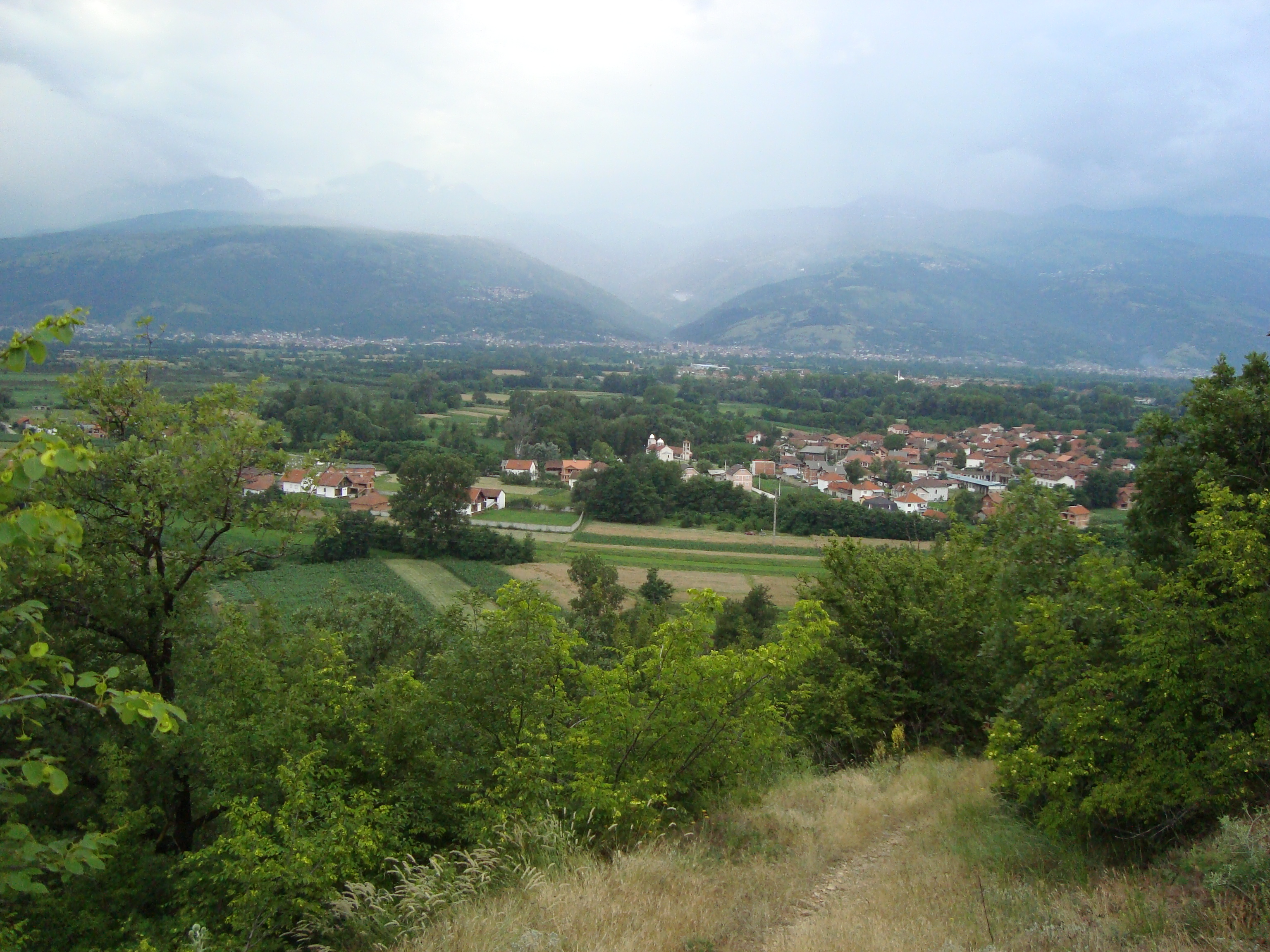 View of Radiovce from Suva Gora, Macedonia.